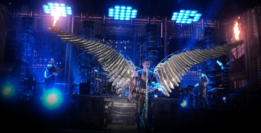 Rammstein, playing "Engel" in Mexico City, May/27/2011